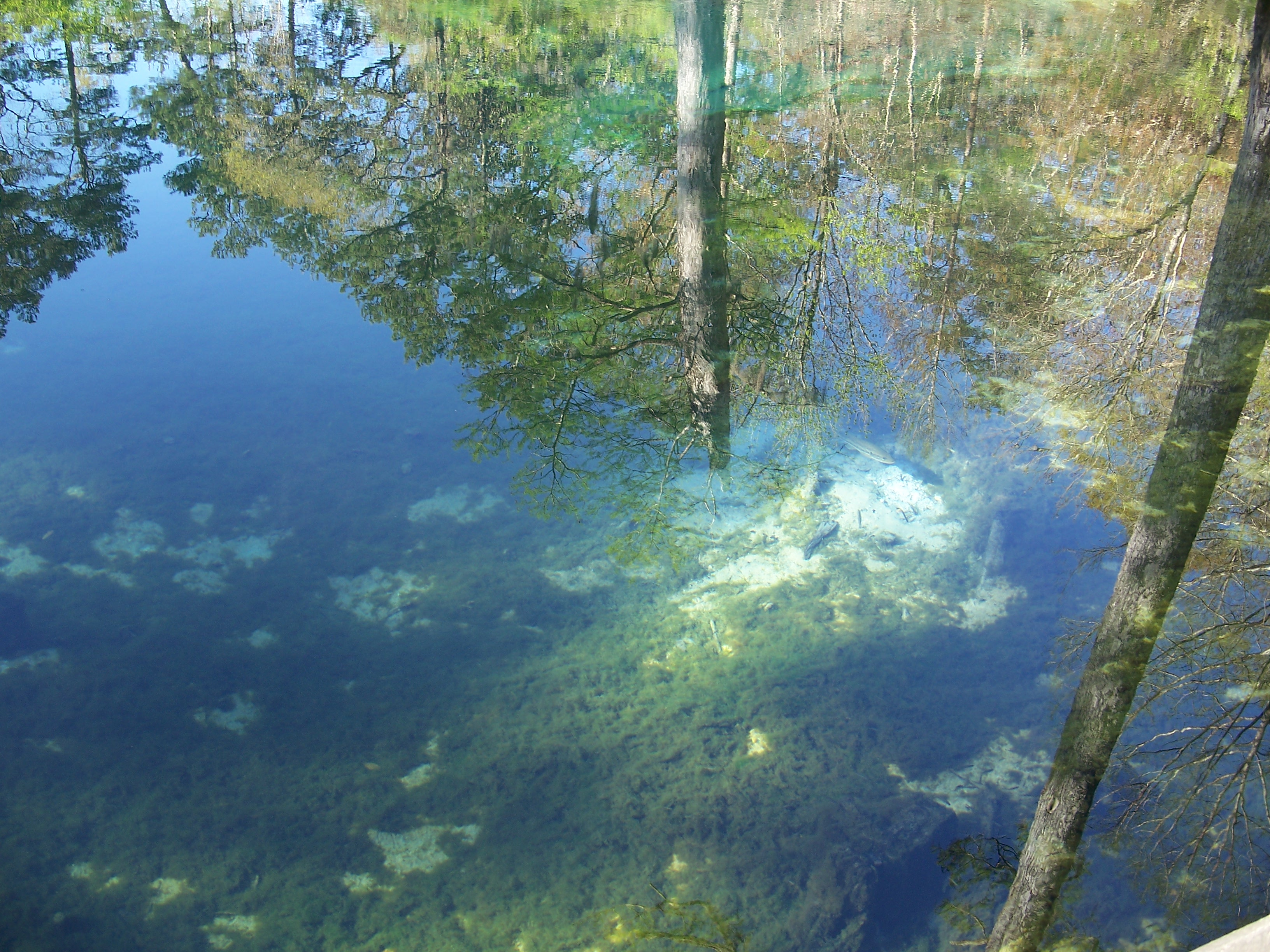 The springs in Ponce de Leon Springs State Park.